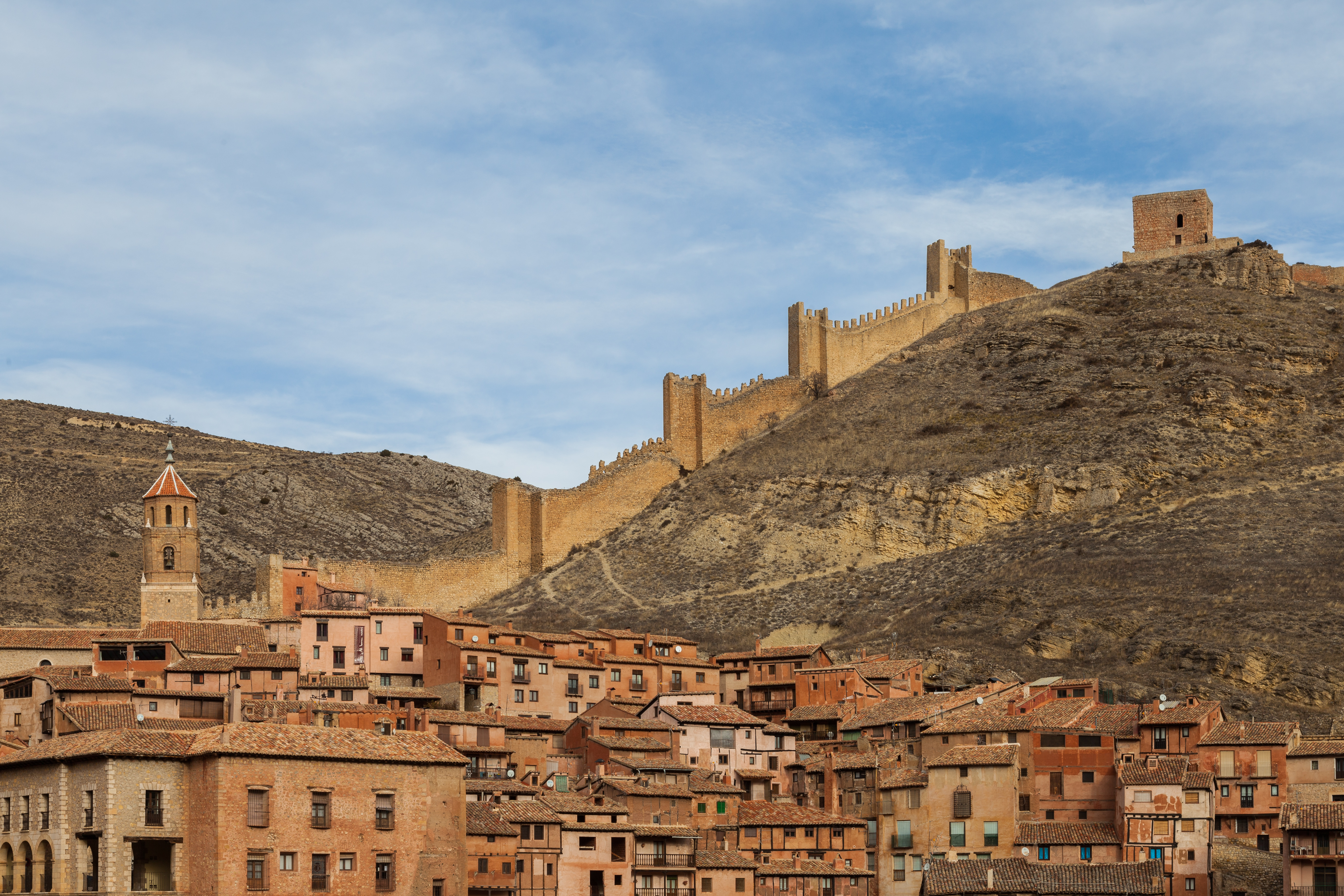 Albarracín city walls, Teruel, Spain